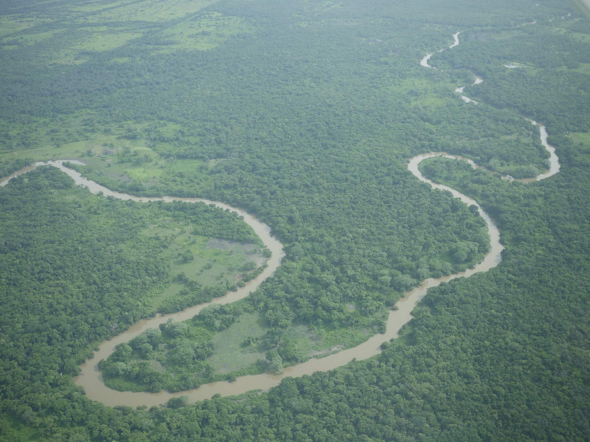 Belize